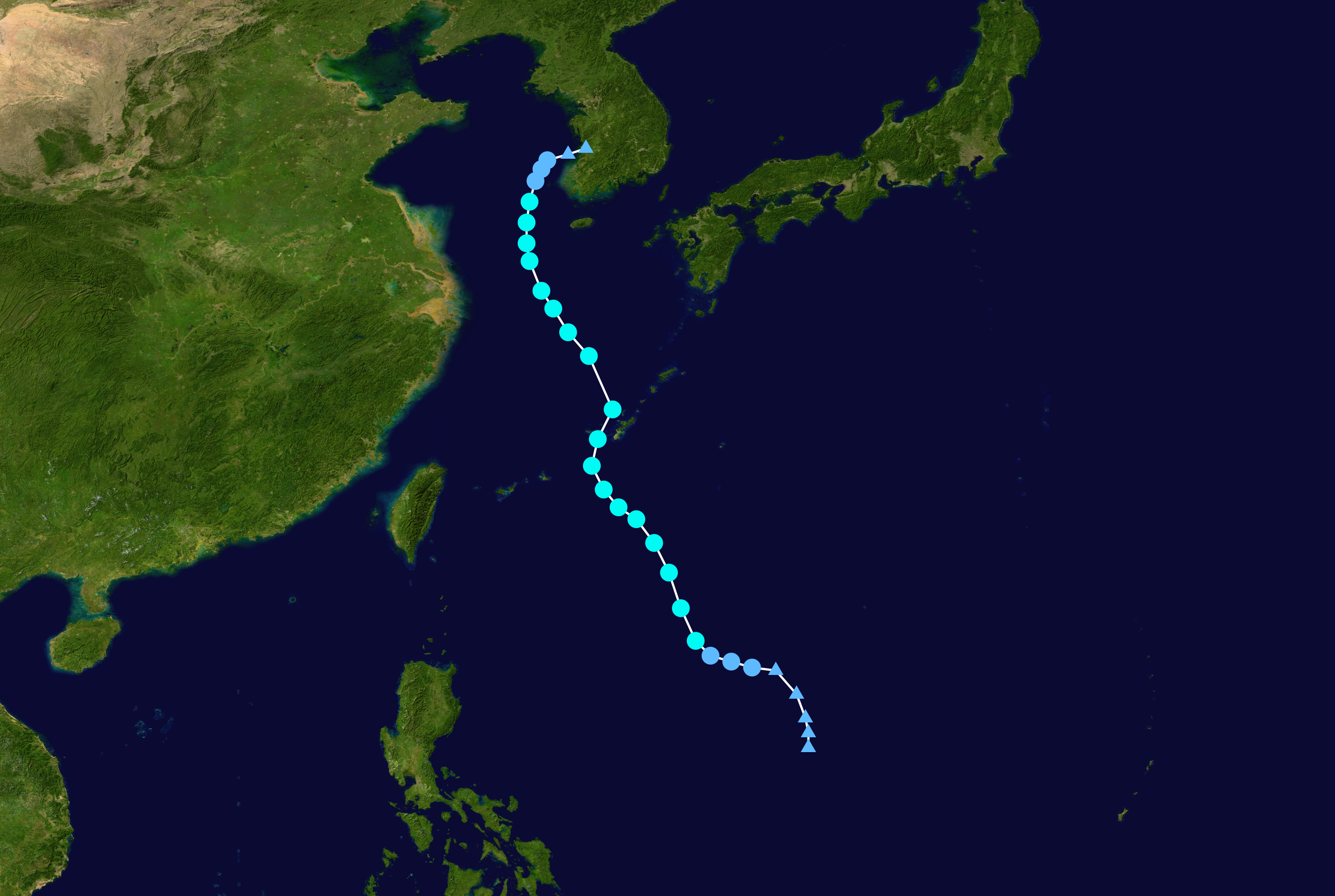 Track map of Severe Tropical Storm Nakri of the 2014 Pacific typhoon season. The points show the location of the storm at 6-hour intervals. The colour represents the storm's maximum sustained wind speeds as classified in the Saffir–Simpson scale (see below), and the shape of the data points represent the nature of the storm, according to the legend below. Saffir–Simpson scale Tropical depression≤38 mph≤62 km/h Category 3111–129 mph178–208 km/h Tropical storm39–73 mph63–118 km/h Category 4130–156 mph209–251 km/h Category 174–95 mph119–153 km/h Category 5≥157 mph≥252 km/h Category 296–110 mph154–177 km/h Unknown Storm type Tropical cyclone Subtropical cyclone Extratropical cyclone / Remnant low / Tropical disturbance / Monsoon depression